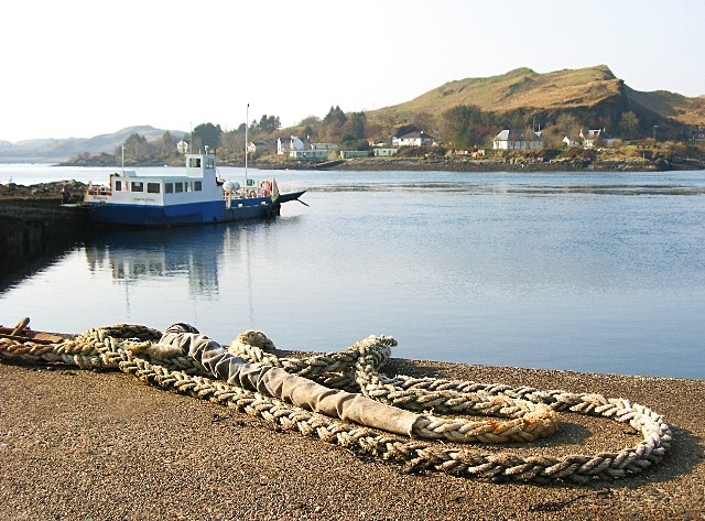 Cuan Sound Looking across Cuan Sound to Luing, from the pier at Cuan.